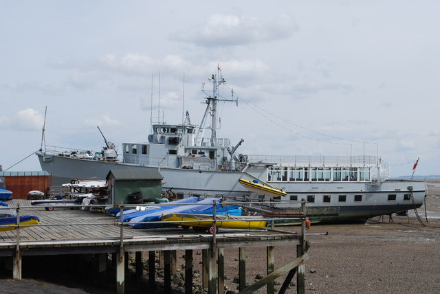 HMS Wilton. The worlds first plastic minesweeper.Built in 1972,and now serves as a yacht club. The appearance has changed greatly since I served on it in 1983. There are now windows in the hull,no funnel and a sun lounge where the after superstructure used to be.